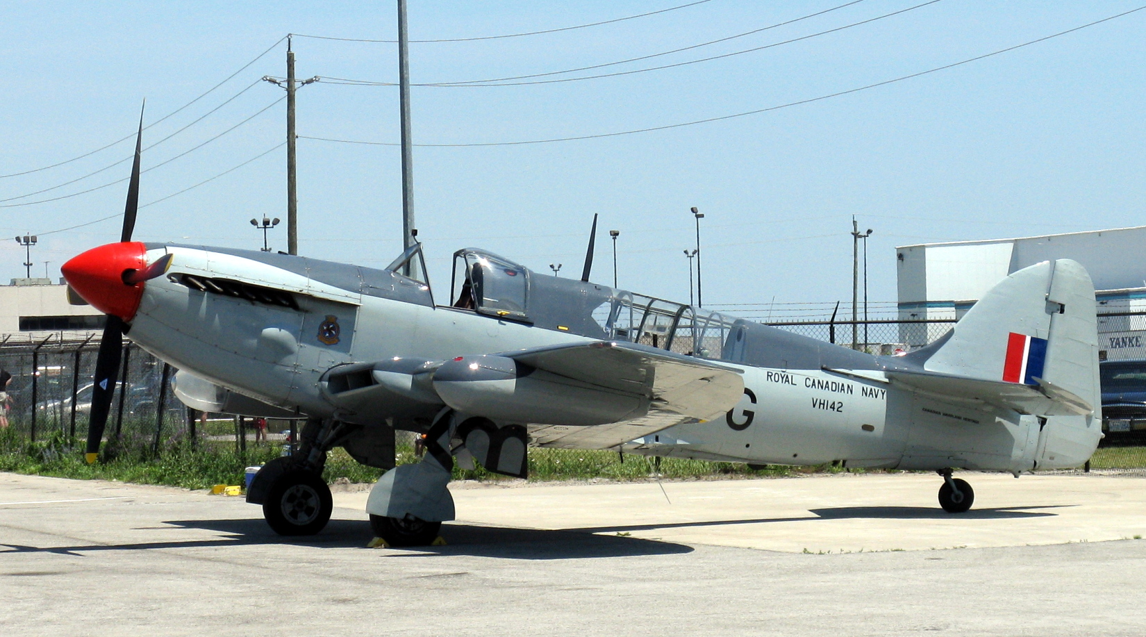 Fairey Firefly Mk. 5 at Canadian Warplane Heritage Museum.